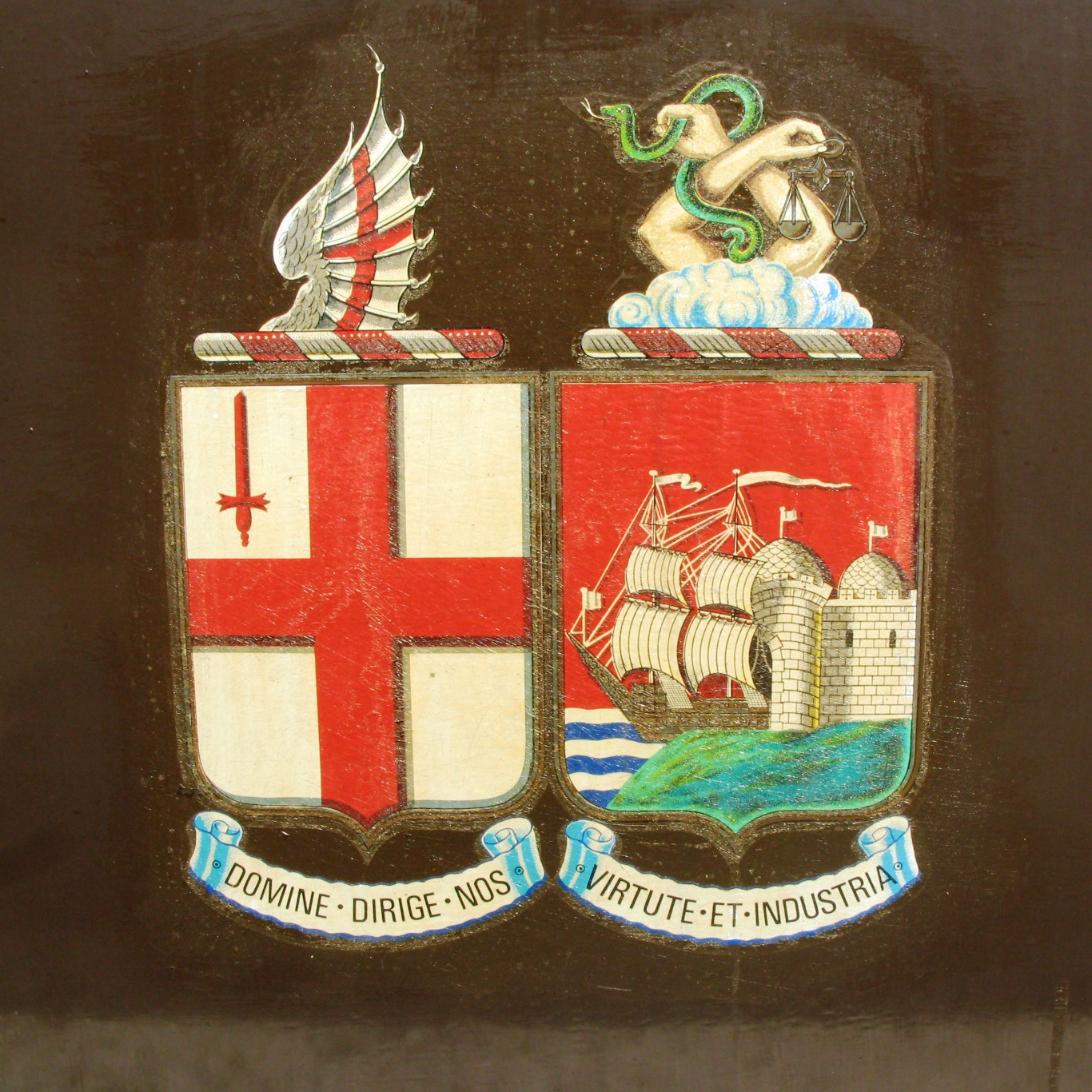 The coat of arms of the Great Western Railway (comprising a joining of those of the cities of London and Bristol) as applied to a preserved coach on the South Devon Railway, England.